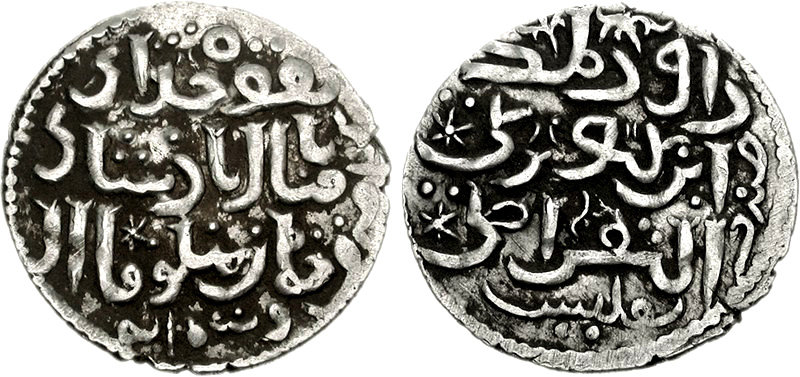 ISLAMIC, Mongols. Great Khans. Möngke. AH 649-658 / AD 1251-1260. AR Dirhem (2.74 g, 5h). Tiflis mint. Struck under Davit VII Ulu, King of Gerogia. Dated AH 651 (AD 1253/4). Legend citing Möngke as overlord in three lines across field; formula “by the power of Heaven” above, AH date below / Name and title of Davit in three lines across field; mint signature below. Nyamaa, p. 136; Kapanadze 87; Album -. Near VF, a few deposits.